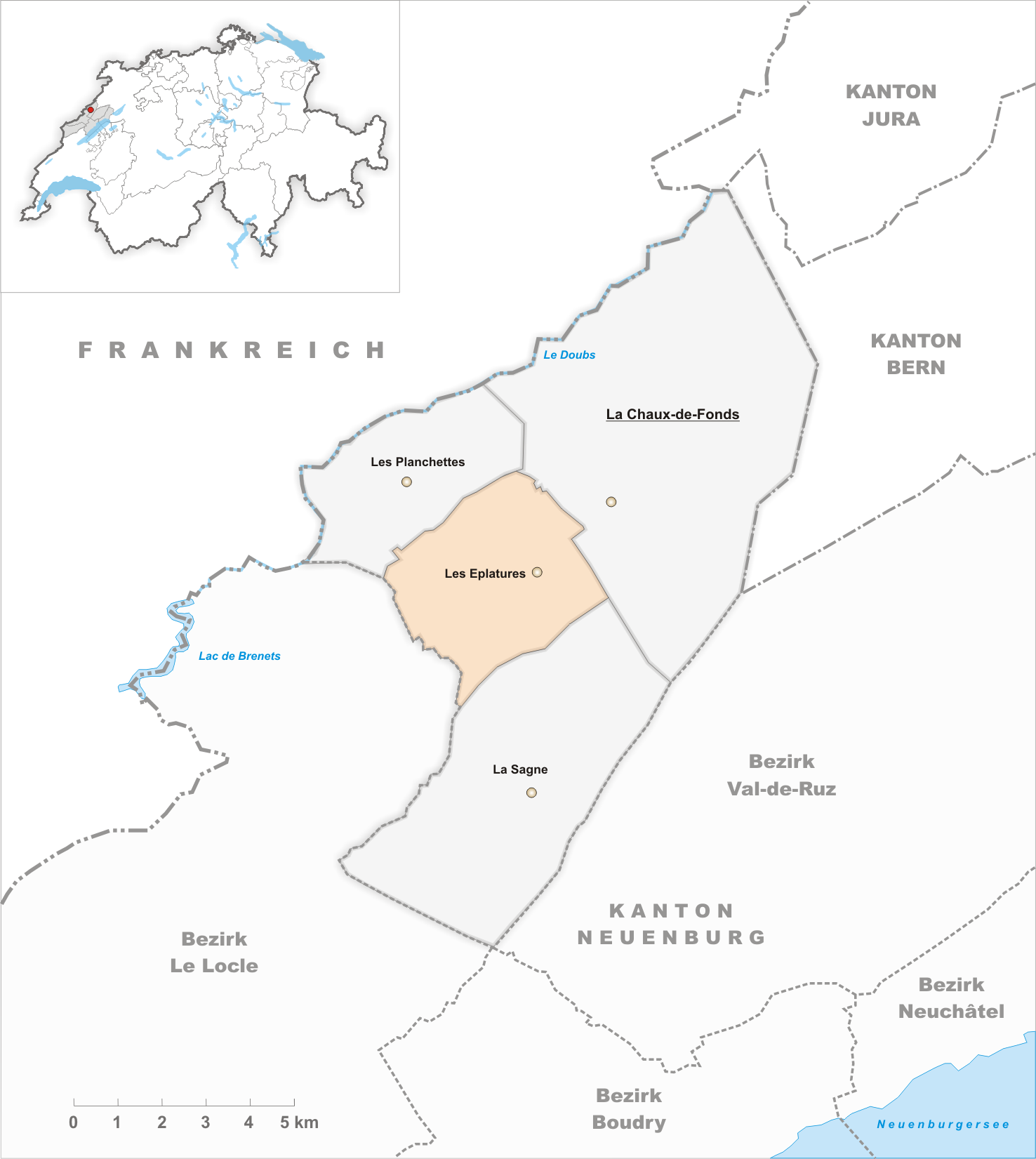 Municipality Les Eplatures Artist: Tschubby